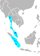 Distribution of Tapirus indicus